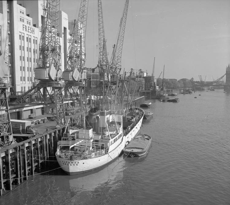 Looking from London Bridge over the Pool of London. Fresh Wharf on the left. Early 1960s.